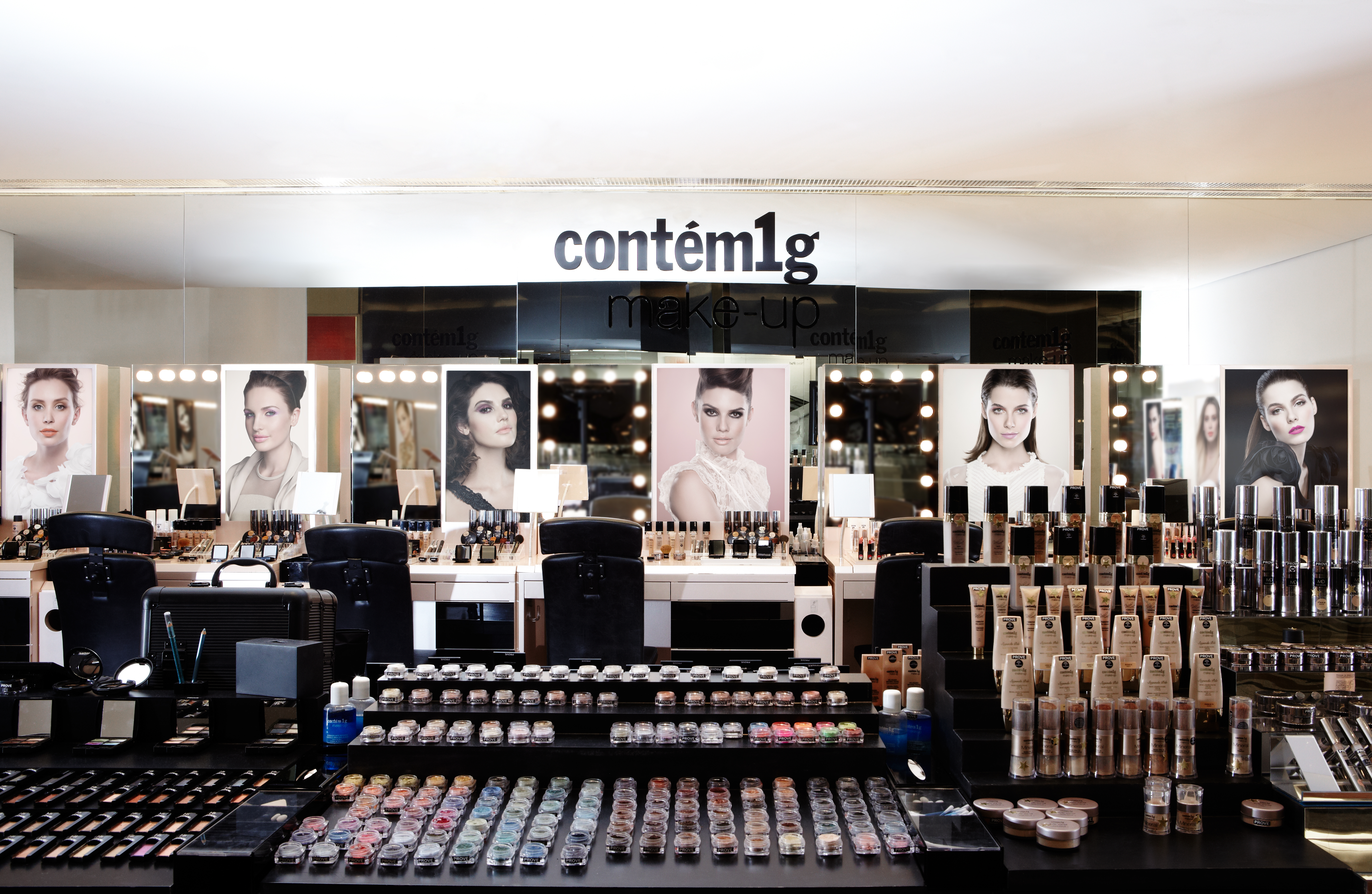 loja Contém1g make-up